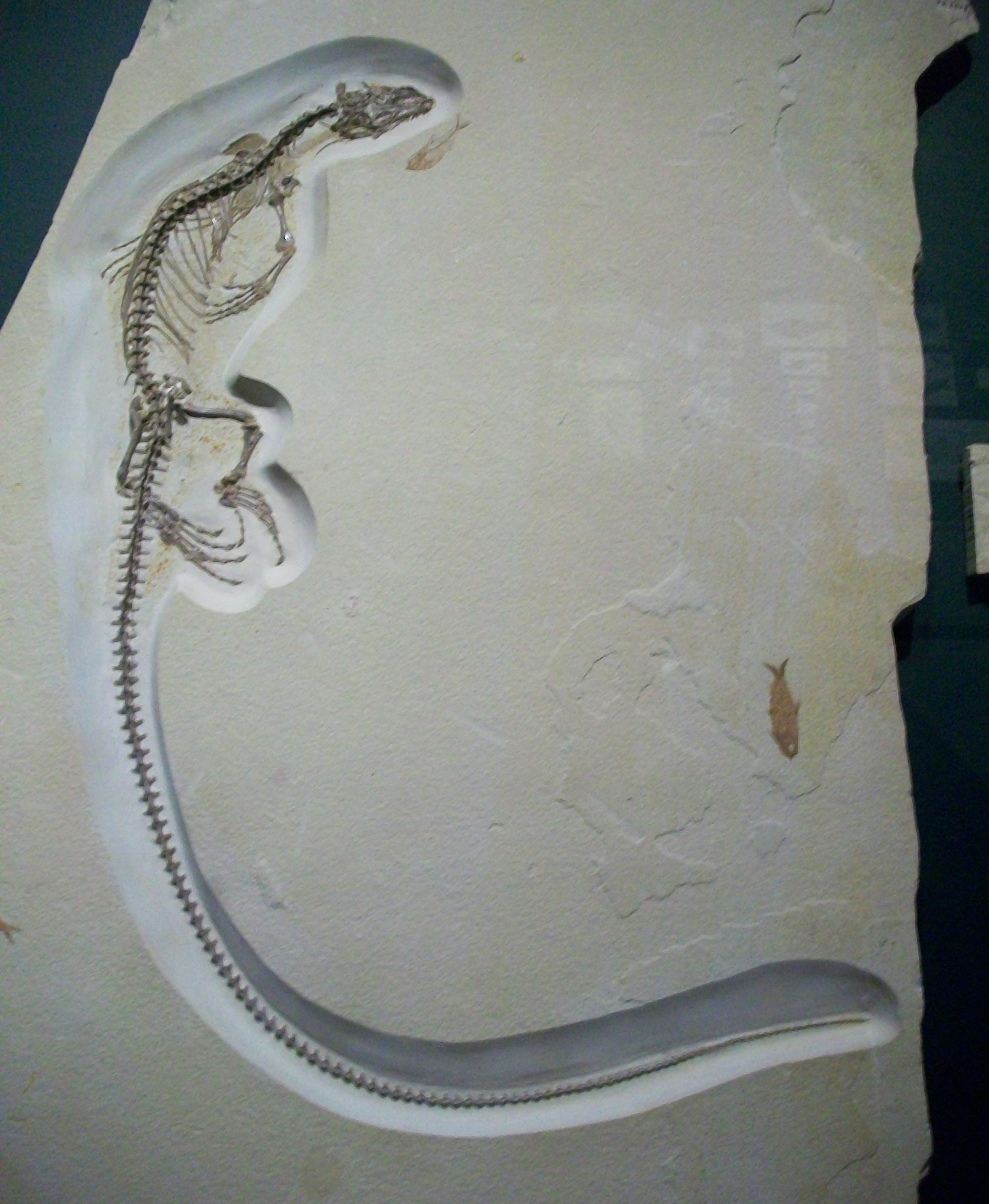 Fossil of Saniwa ensidens in the Field Museum of Natural History.